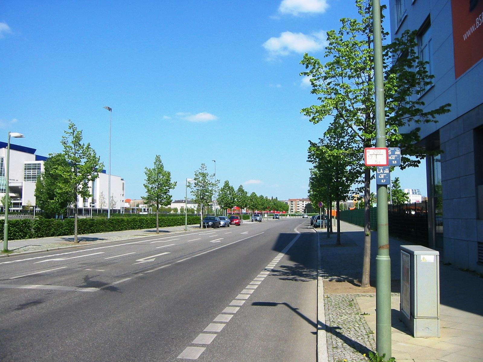 Berlin-Friedrichshain Tamara-Danz-Straße